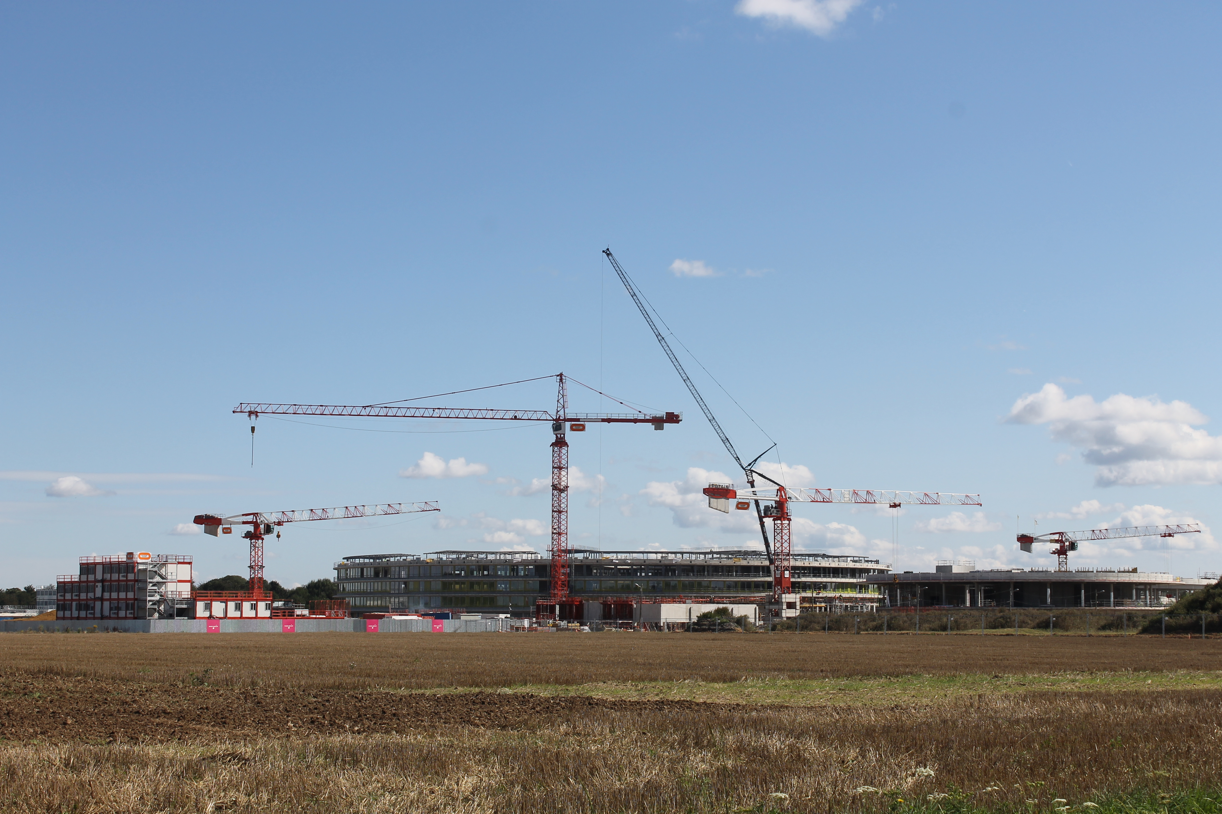 The EDF Lab of Paris-Saclay under construction (August 2014).